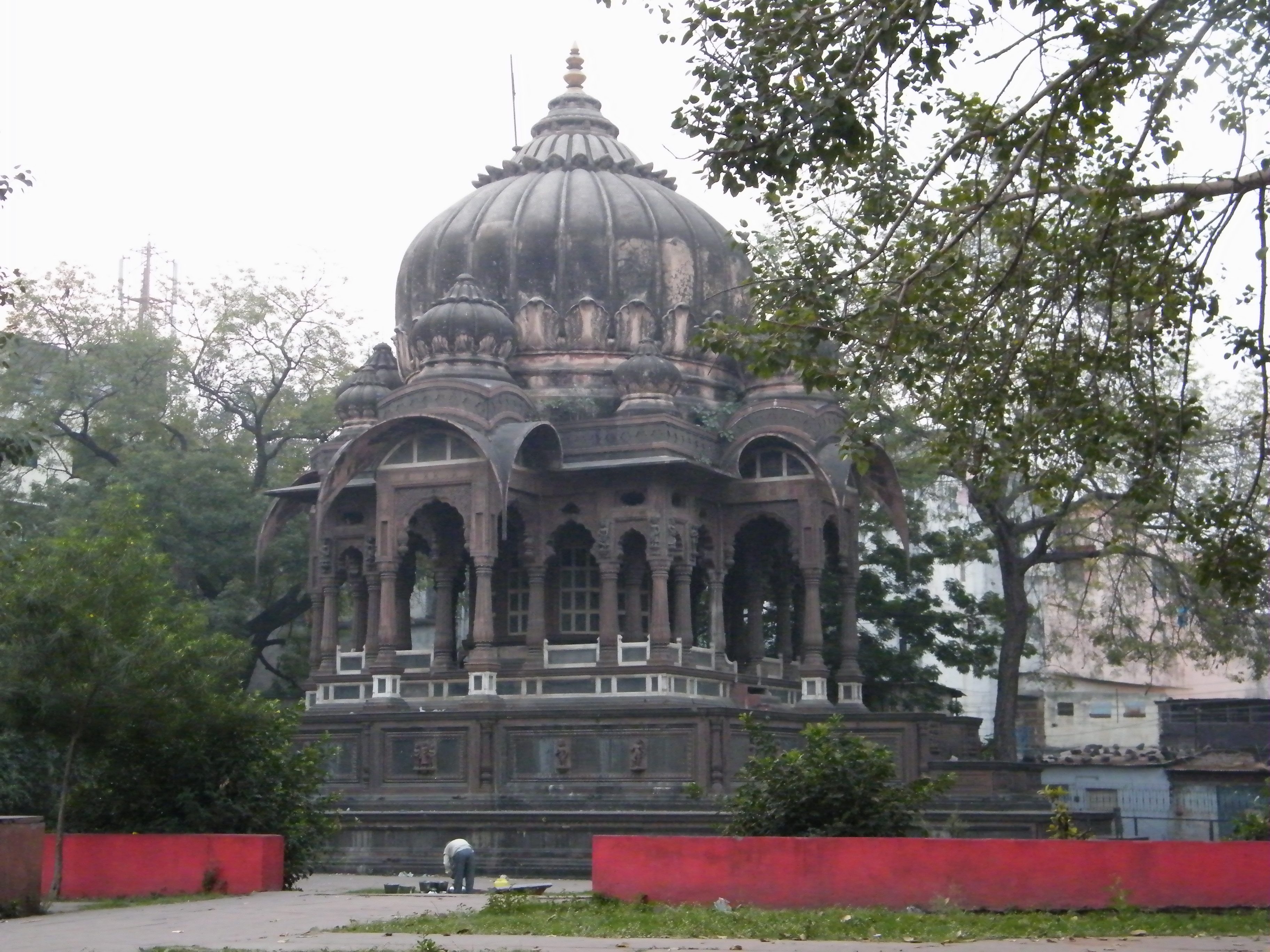 A stone structure near Krishnapura Chhatri, Indore dating back to the Holkar period.